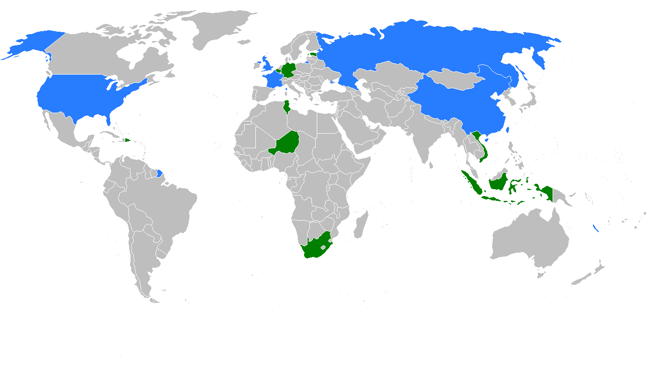 Membership of the United Nations Security Council for 2020